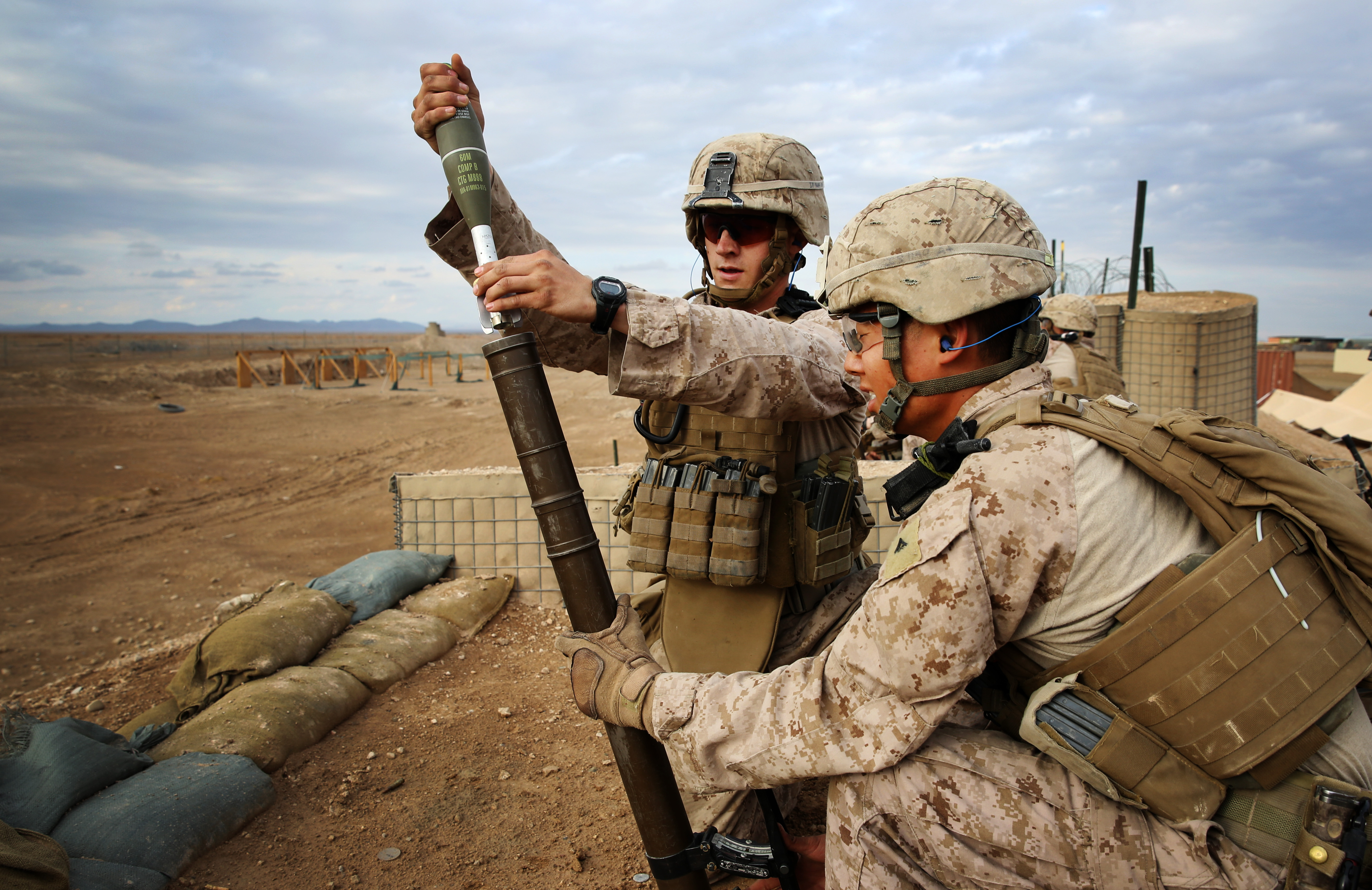 Lance Cpl. Dale Parrott, a mortarman serving with India Company, 3rd Battalion, 7th Marine Regiment, fires a 60mm mortar while Lance Cpl. Nathanial Sui holds the mortar tube steady during unknown distance live-fire training at Camp Leatherneck, Helmand province, Afghanistan, Nov. 24, 2013. Parrott is a 22-year-old native of Humble, Texas. Sui is a native of Hayward, Calif. (U.S. Marine Corps photo by Cpl. Corey Dabney/Released)